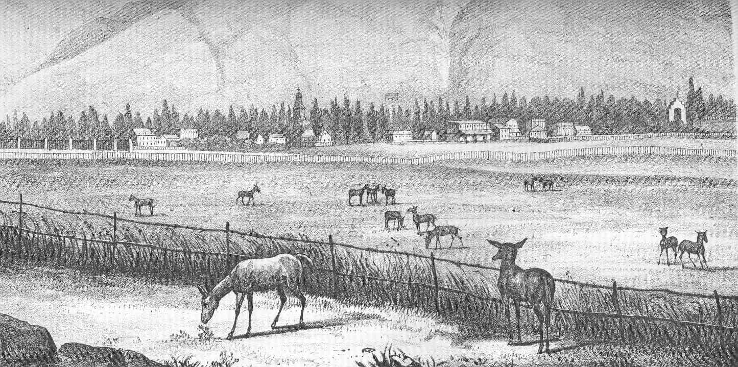 Tarma Subject: Tarma (Peru) Geographic Subject: Peru--Tarma Tag: Coasts